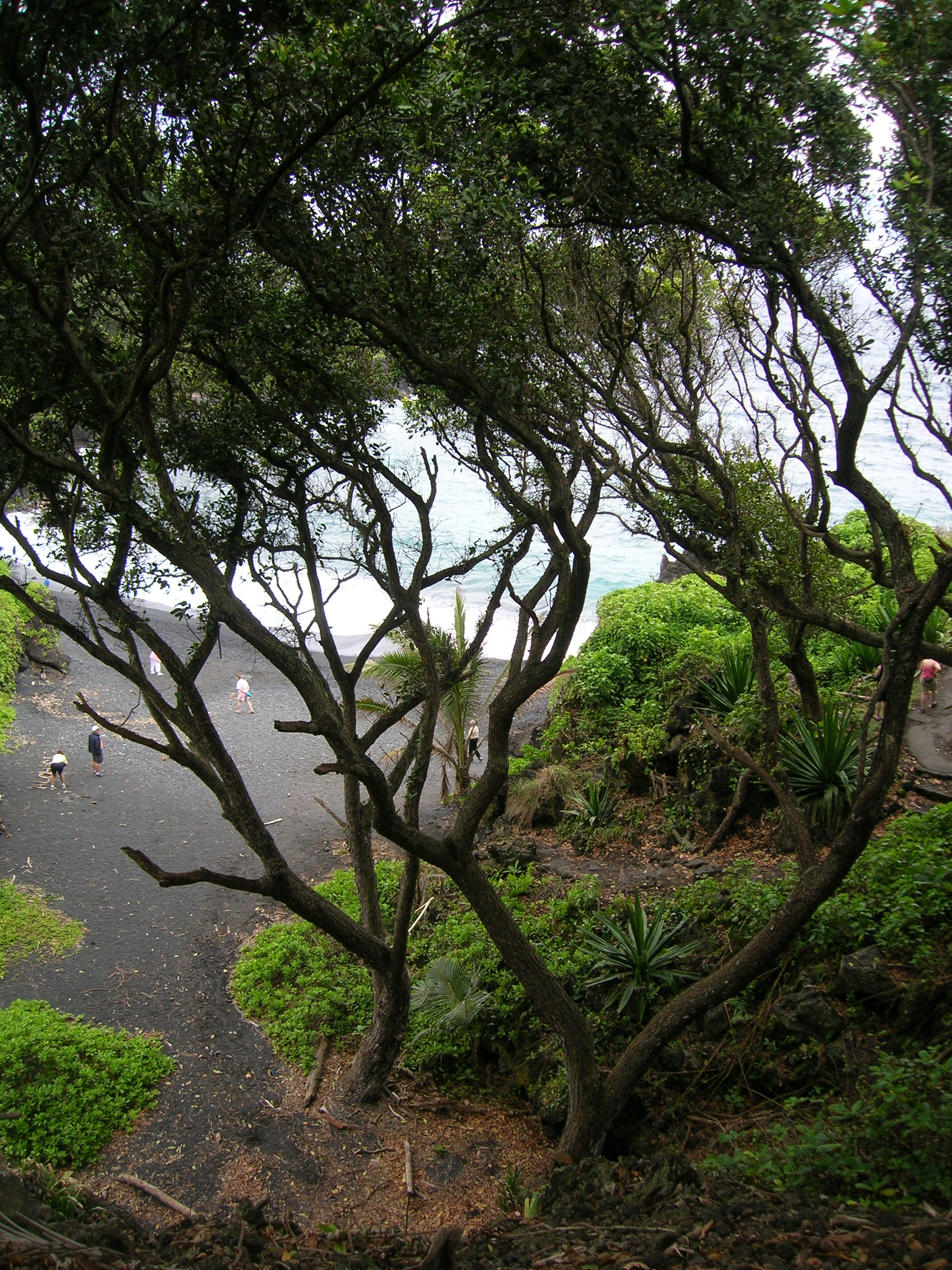 Calophyllum inophyllum (habit view black sand beach). Location: Maui, Waianapanapa